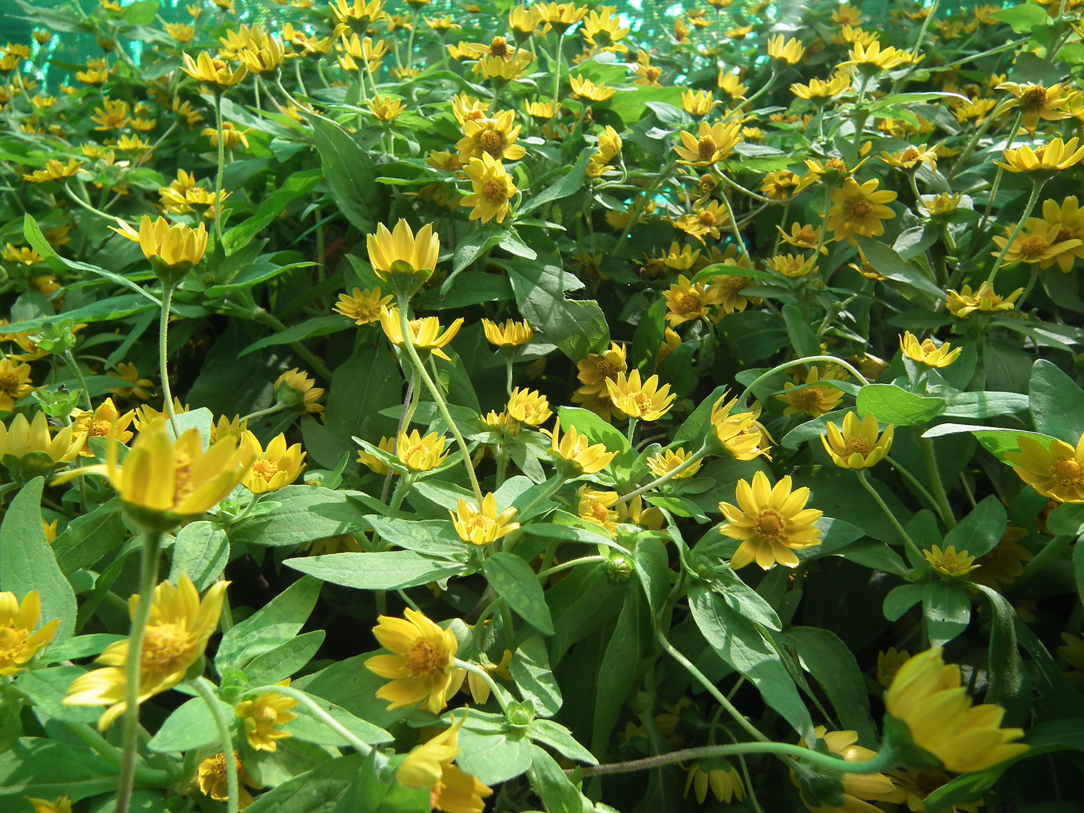 Helianthus microcephalus flower from Lalbagh,Bangalore, India, during flowershow January 2012, .